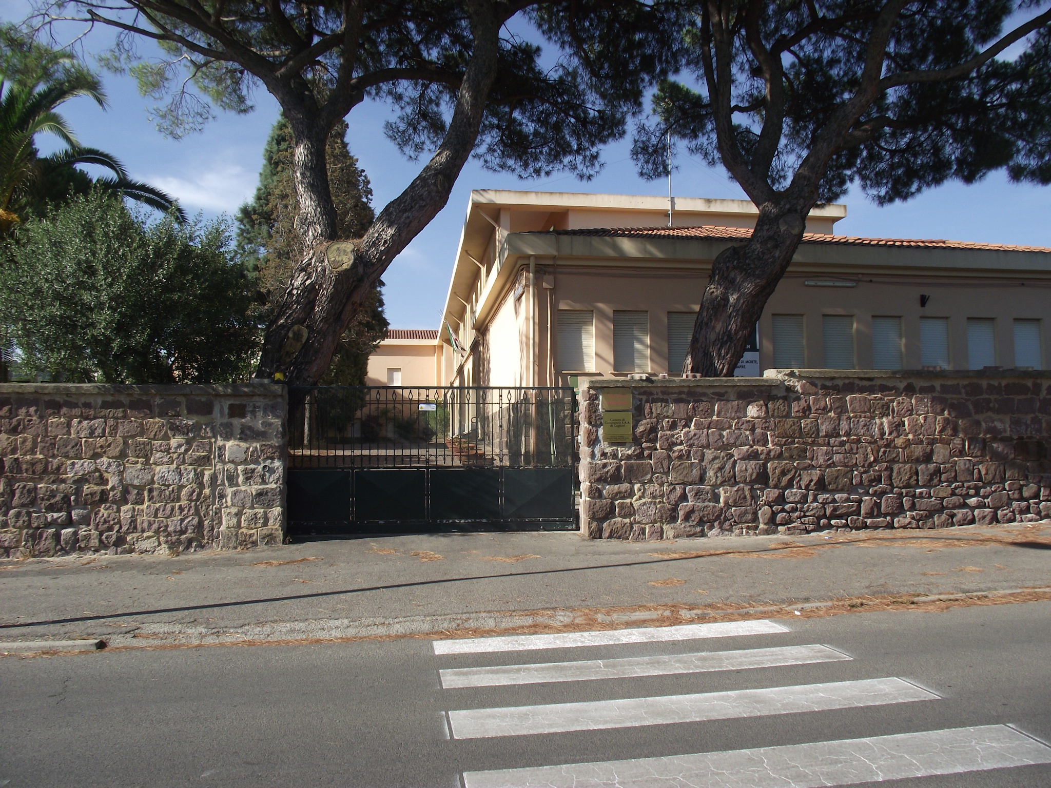 The seat of the Province of Carbonia-Iglesias of via Fertilia in Carbonia, Sardinia, Italy